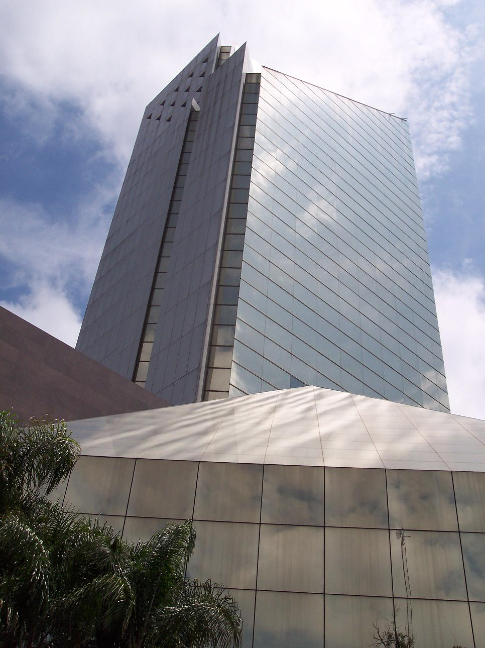 Description: Chapultepec Building, Guadalajara Source: Own Job Date: 5-07-04